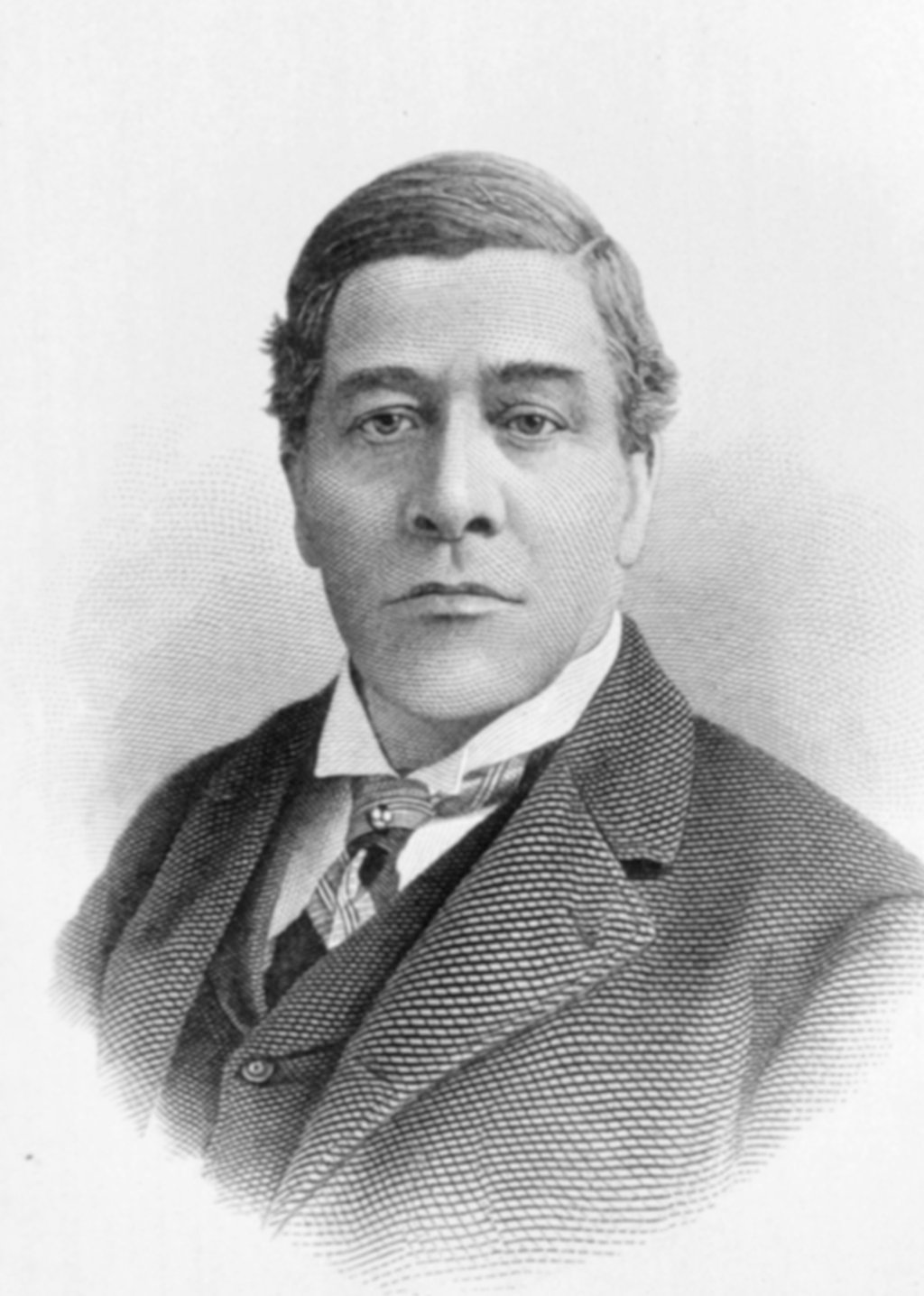 Richard Alsop Wise (September 2, 1843 - December 21, 1900)